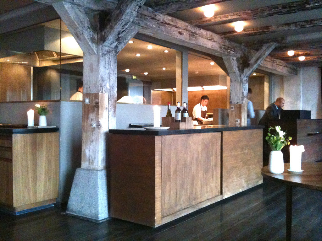 noma Restaurant in Copenhagen - the Hall